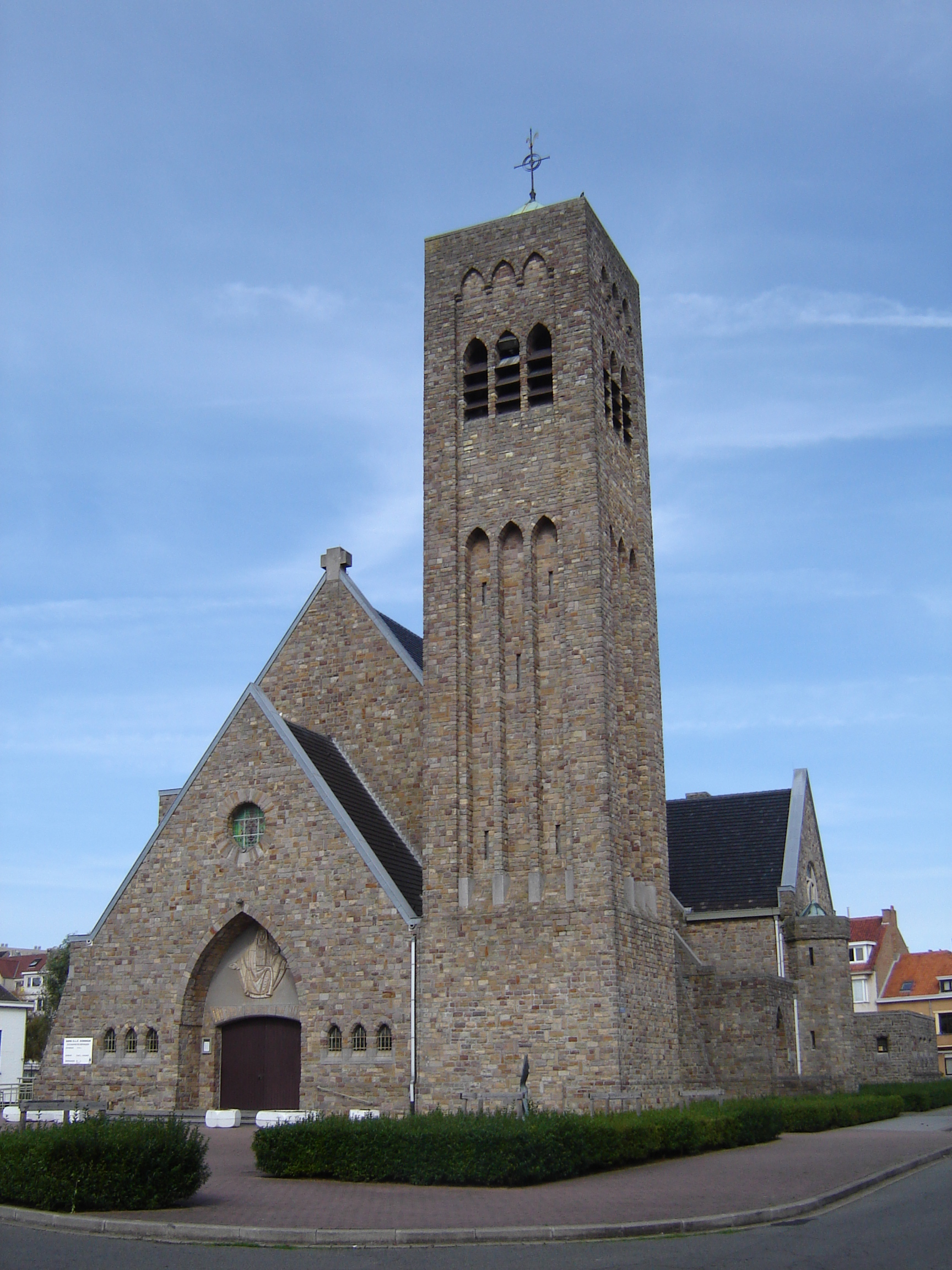 Church of the Assumption of Mary and the Queenship of Mary in Mariakerke. Mariakerke, Oostende, West Flanders, Belgium